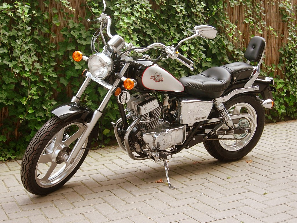 This is my AJS Regal-Raptor DD125E.